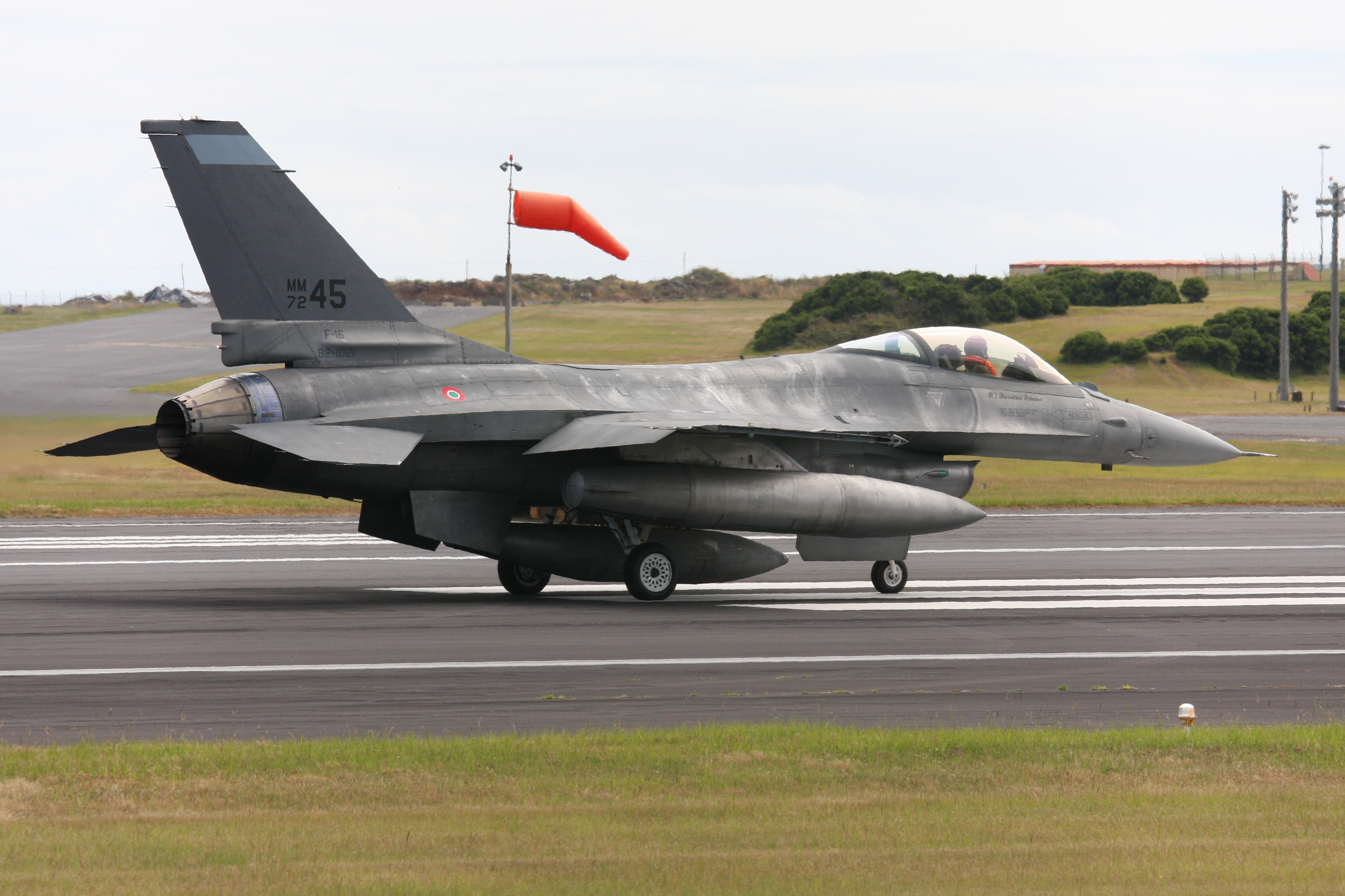 General Dynamics F-16 of the Italian Air Force